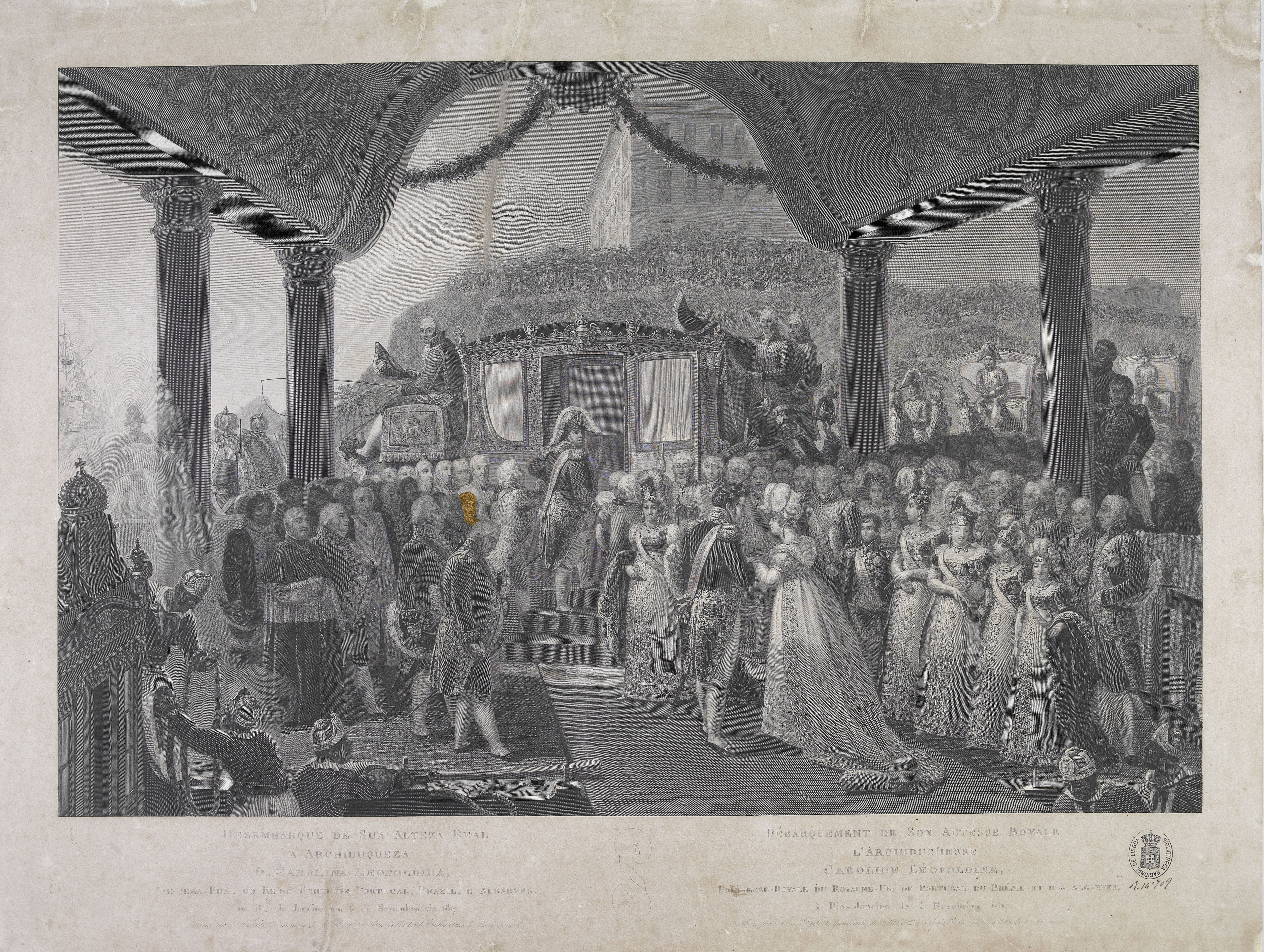 Presença no desembarque a 6 de Novembro de 1817 do Dr. Bernardino António Gomes, médico que acompanhou a Princesa Leopoldina de Livorno ao Rio de Janeiro, a pedido de D. João VI. Gravura a buril de Charles Simon Pradier (1783-1847), segundo pintura de Jean Baptiste Debret (1768-1848 ), provavelmente publicada depois de 1820.